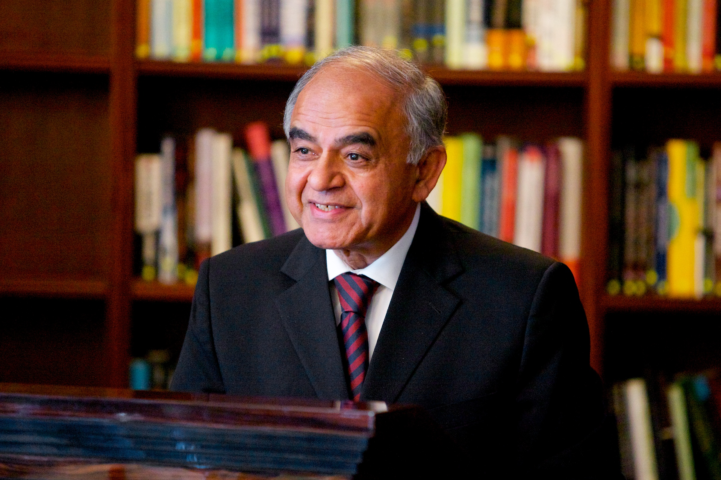 Gurcharan Das speaking on podium